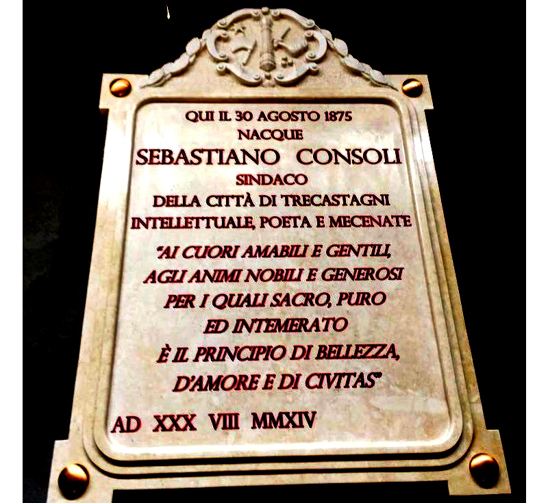 Targa commemorativa inaugurata il 27 dicembre 2014.